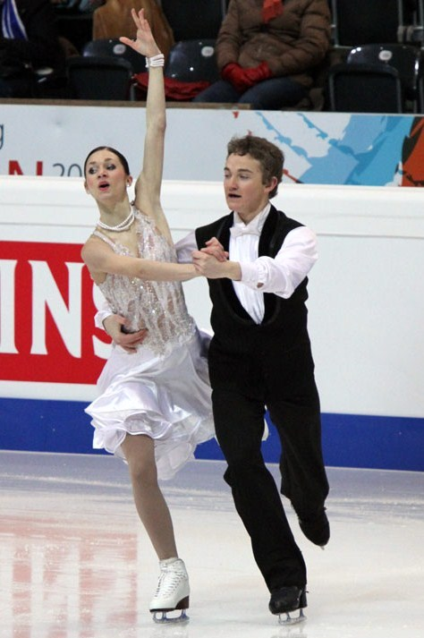 Irina Shtork / Taavi Rand at the 2011 European Figure Skating Championships